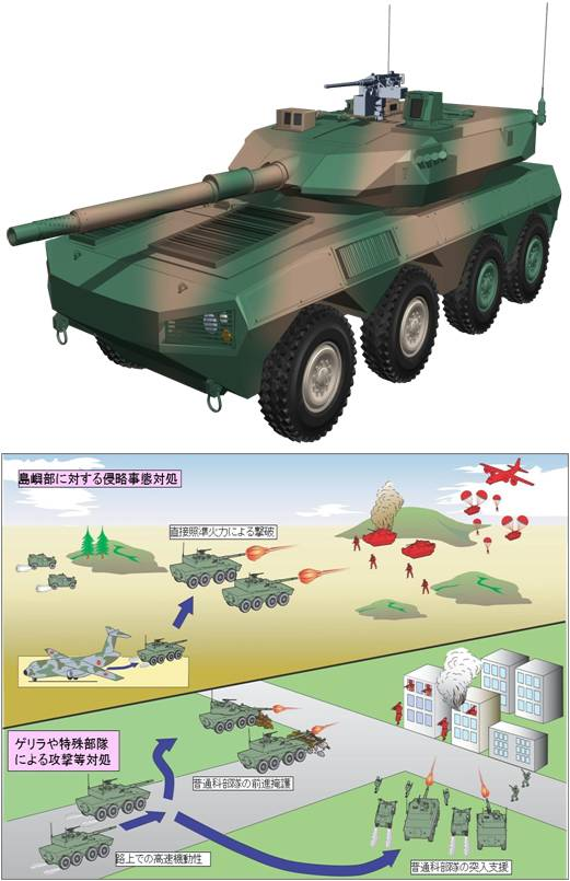 Official PR image from the TRDI / MOD (Japan), showing a coloured profile drawing of the Maneuver Combat Vehicle [formerly called the Mobile Combat Vehicle] in the top half, with a illustration of the MCV's usage in conventional (anti-invasion) and COIN scenarios making up the bottom half of the image.